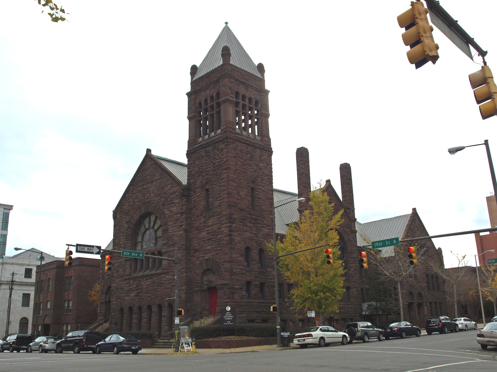 First United Methodist Church in Birmingham, Alabama, listed on the National Register of Historic Places.